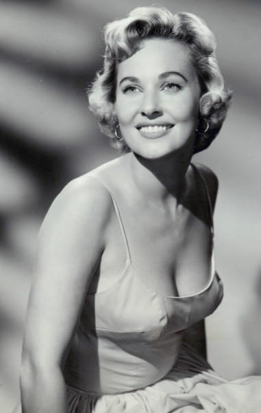 Publicity photo of Lola Albright as Edie Hart in the television show Peter Gunn, 1959.